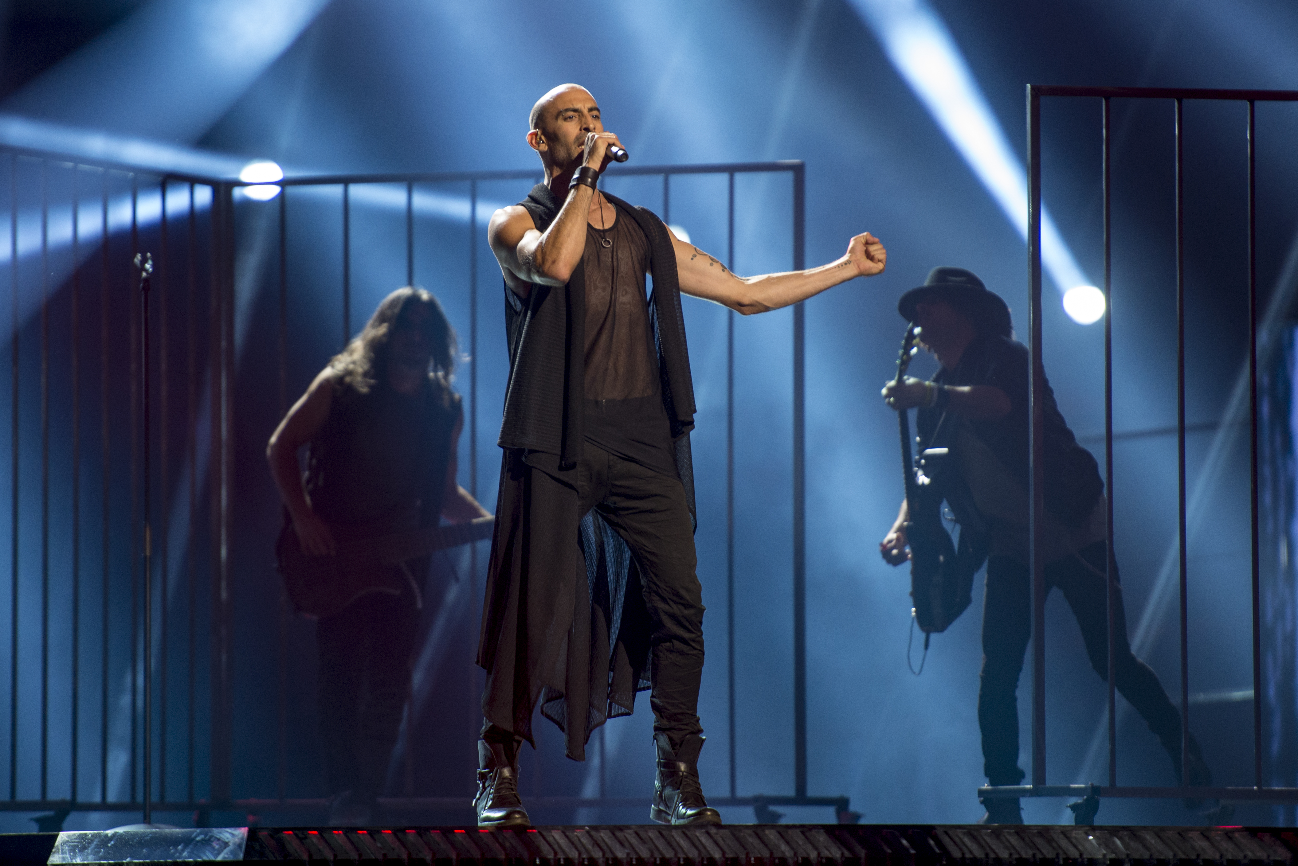 Minus One representing Cyprus with the song "Alter Ego" during a rehearsal before the first semi final of the Eurovision Song Contest 2016 in Stockholm. (Help translate this text)